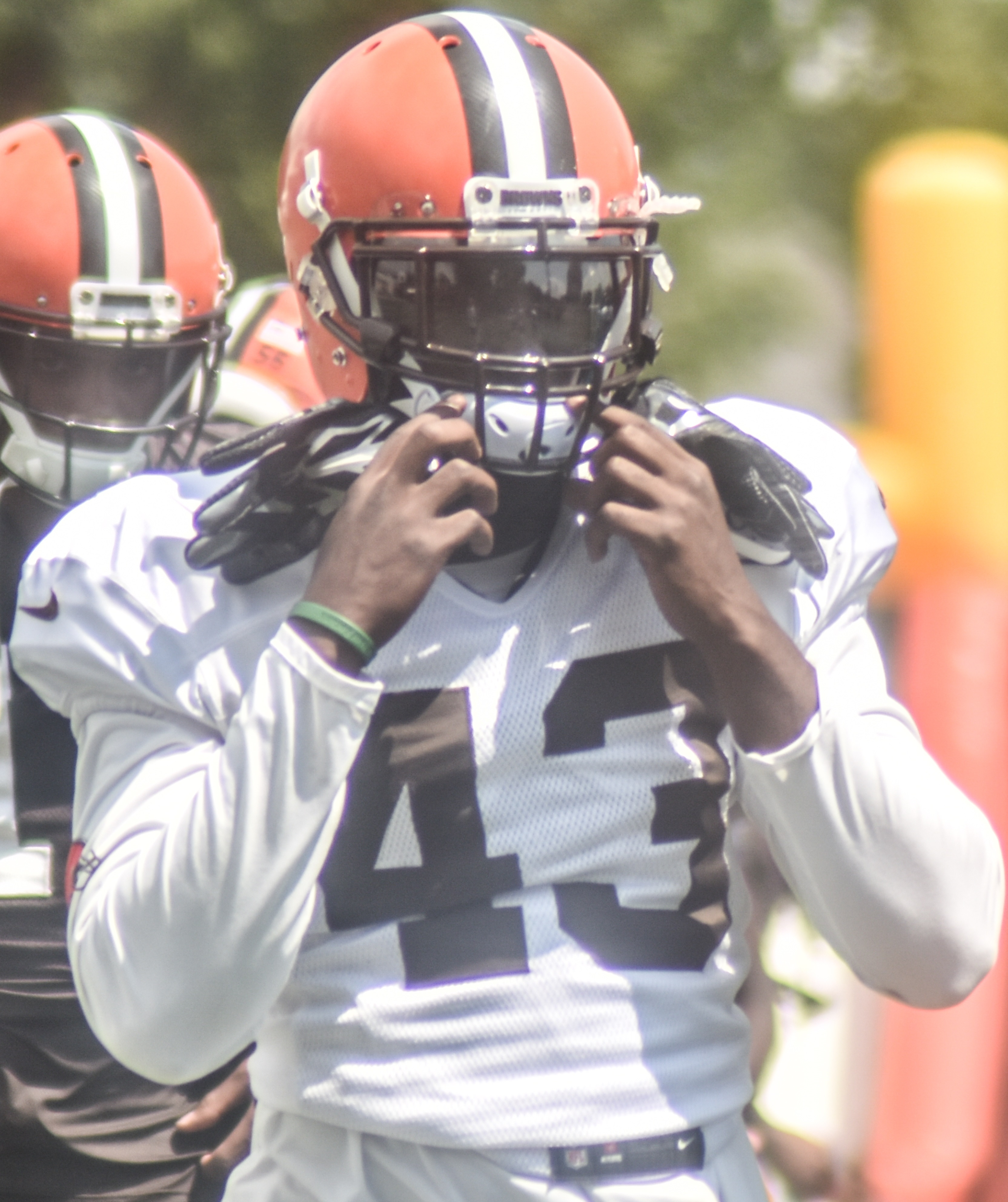 2016 training camp